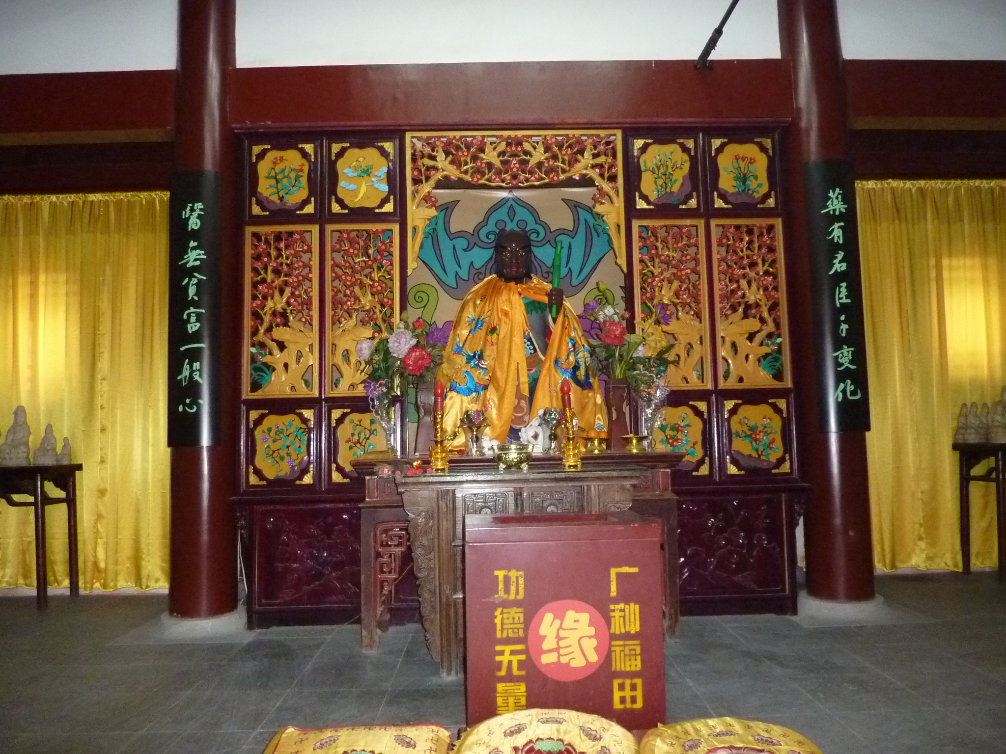 Yao Wang ("King of Medicine") Hall, Tianfei Palace, Nanjing.